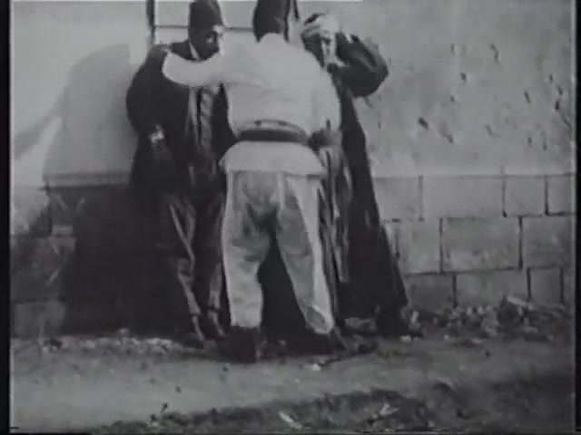 Barsoum Looking for a Job (1923 film), image extracted from film